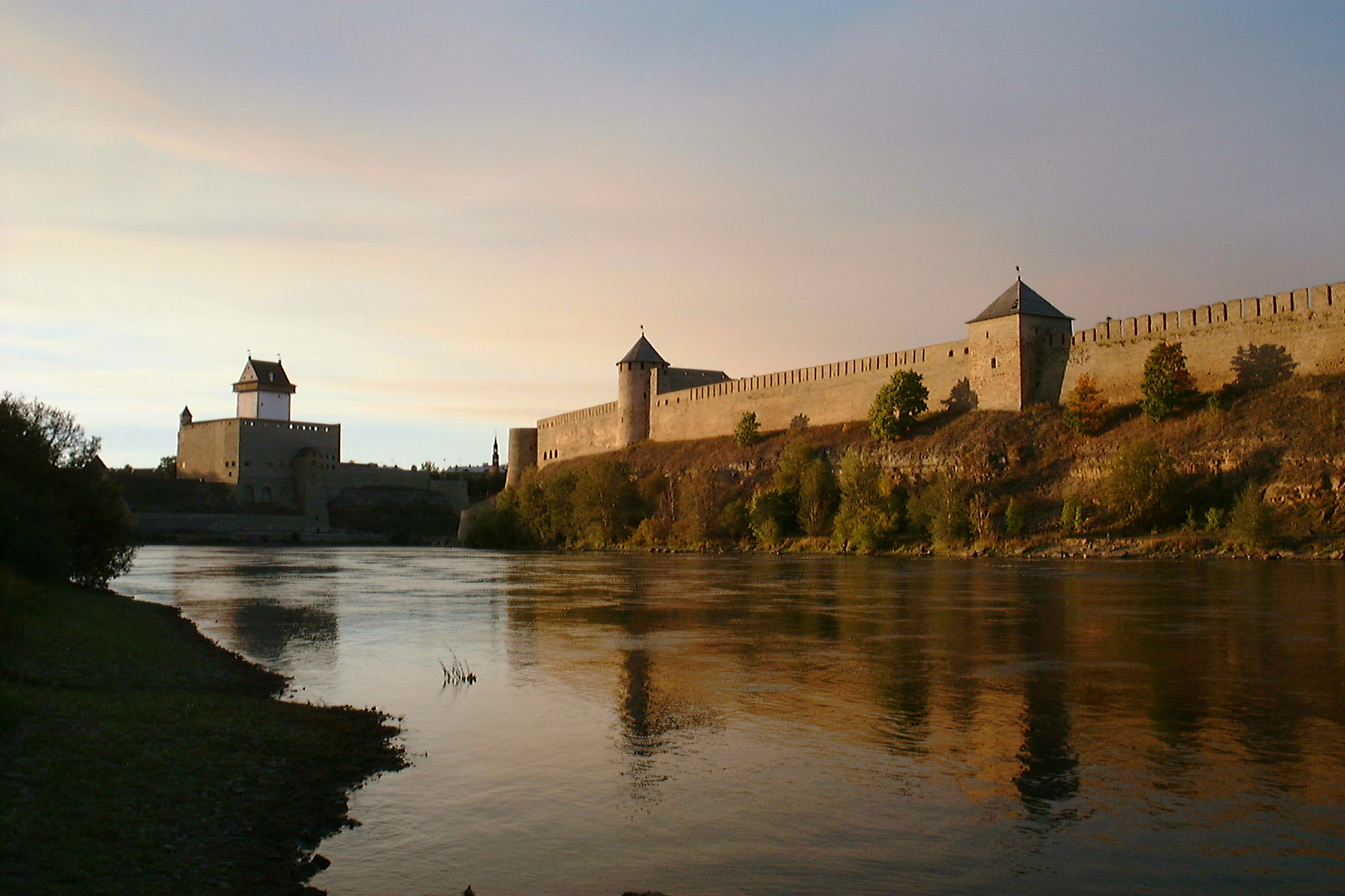 Narva river, Narva castle on the left, Ivangorod castle on the right. The border between Estonia and Russia.